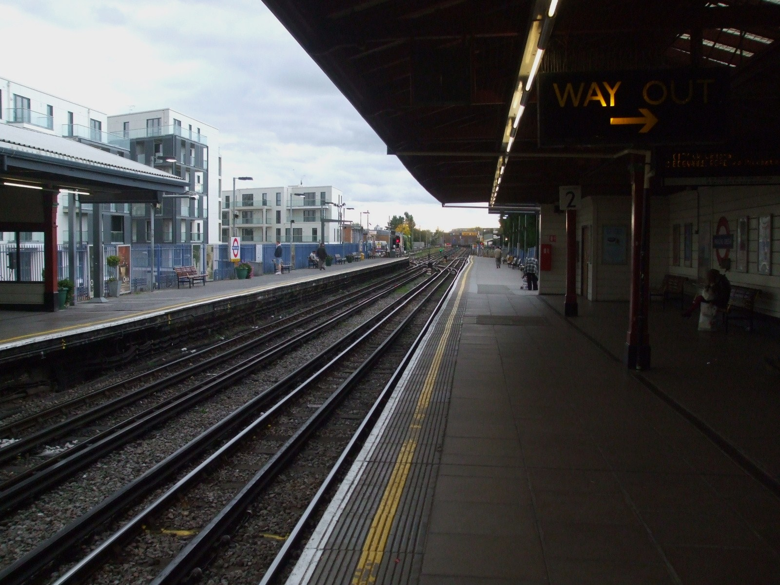 Parsons Green tube station looking westbound. Note sidings visible in the distance.